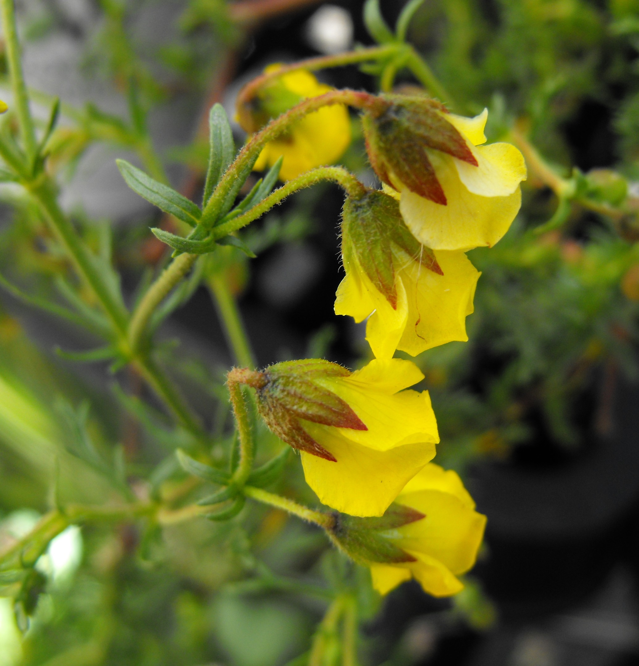 Hermannia verticillata at the San Diego Home & Garden Show, California, USA. Identified by exhibitor's sign.